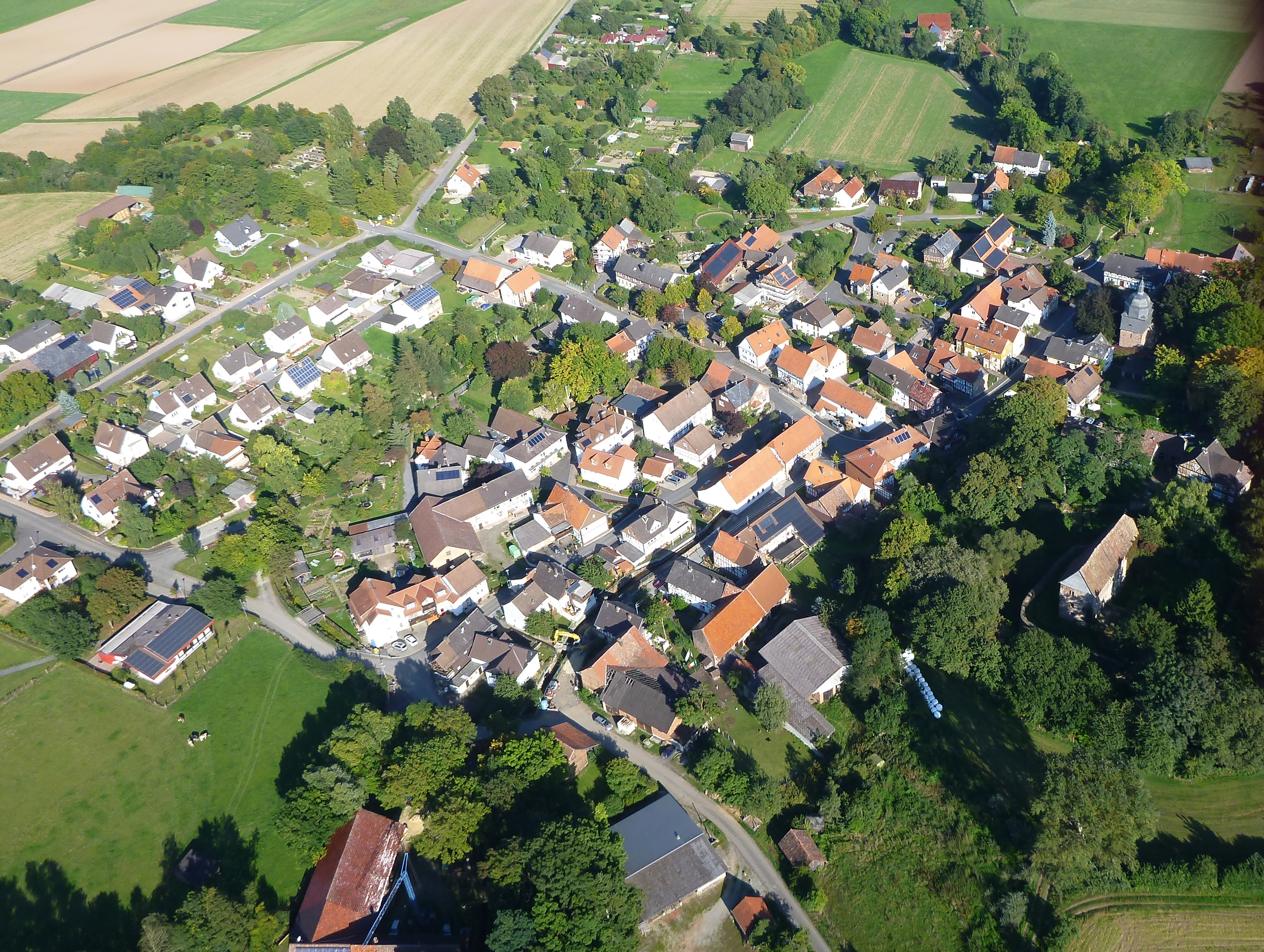 Aerial view of Niederurff, viewed from Southwest